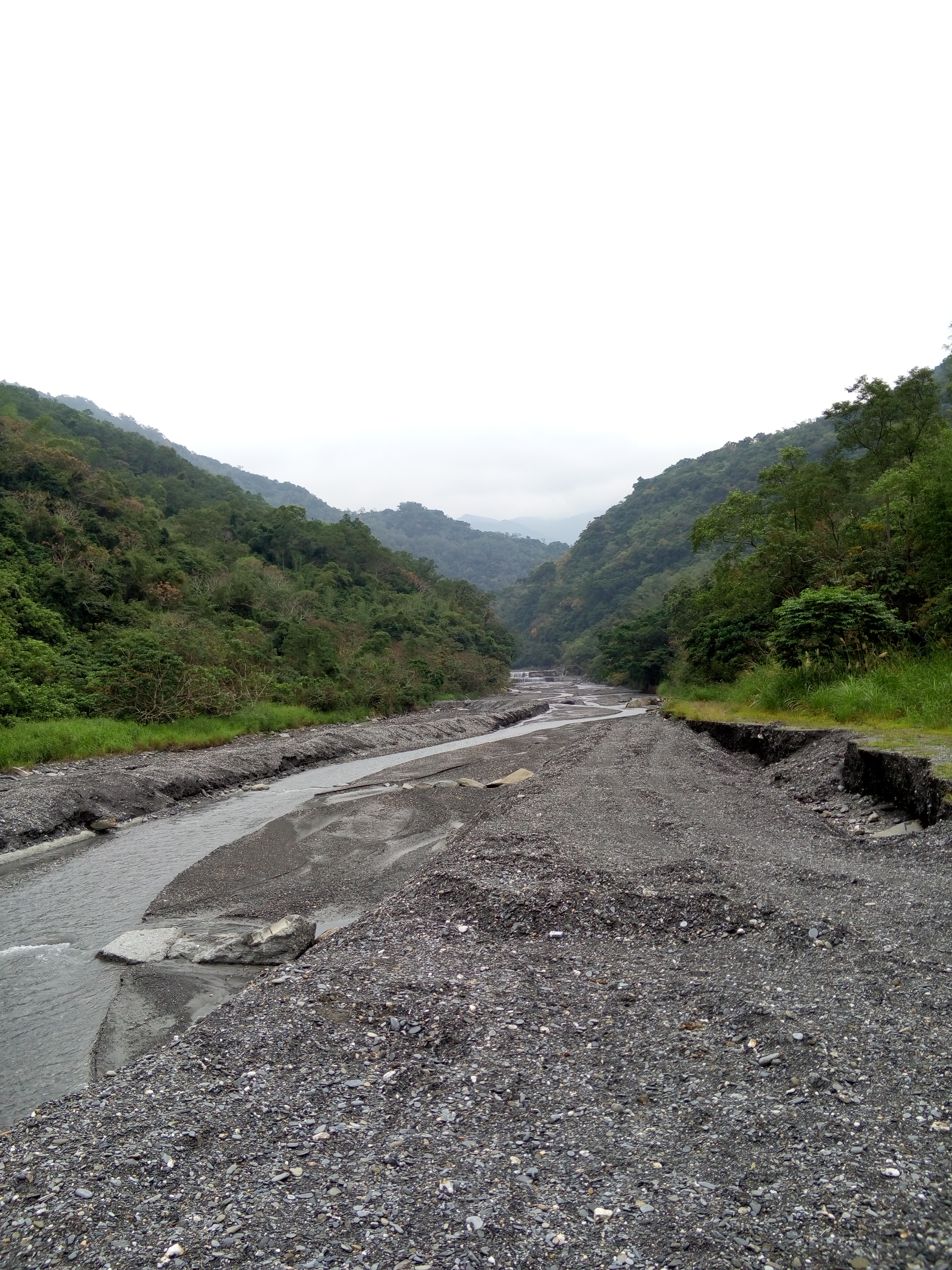 Taiwan Taitung County Li-Jia River